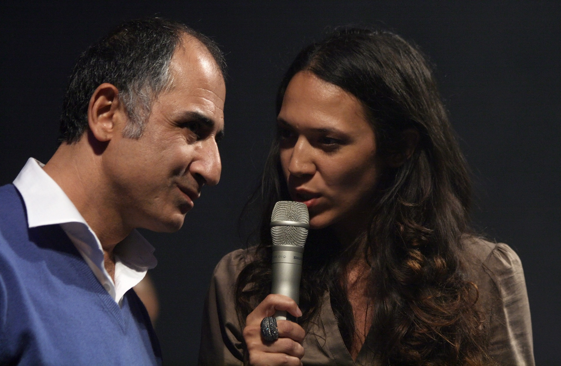 Senol Akkilic and Amira Awad - opening the charity evening wiener melange 2011 for the Integrationshaus at Brauerei Ottakringer in Vienna.